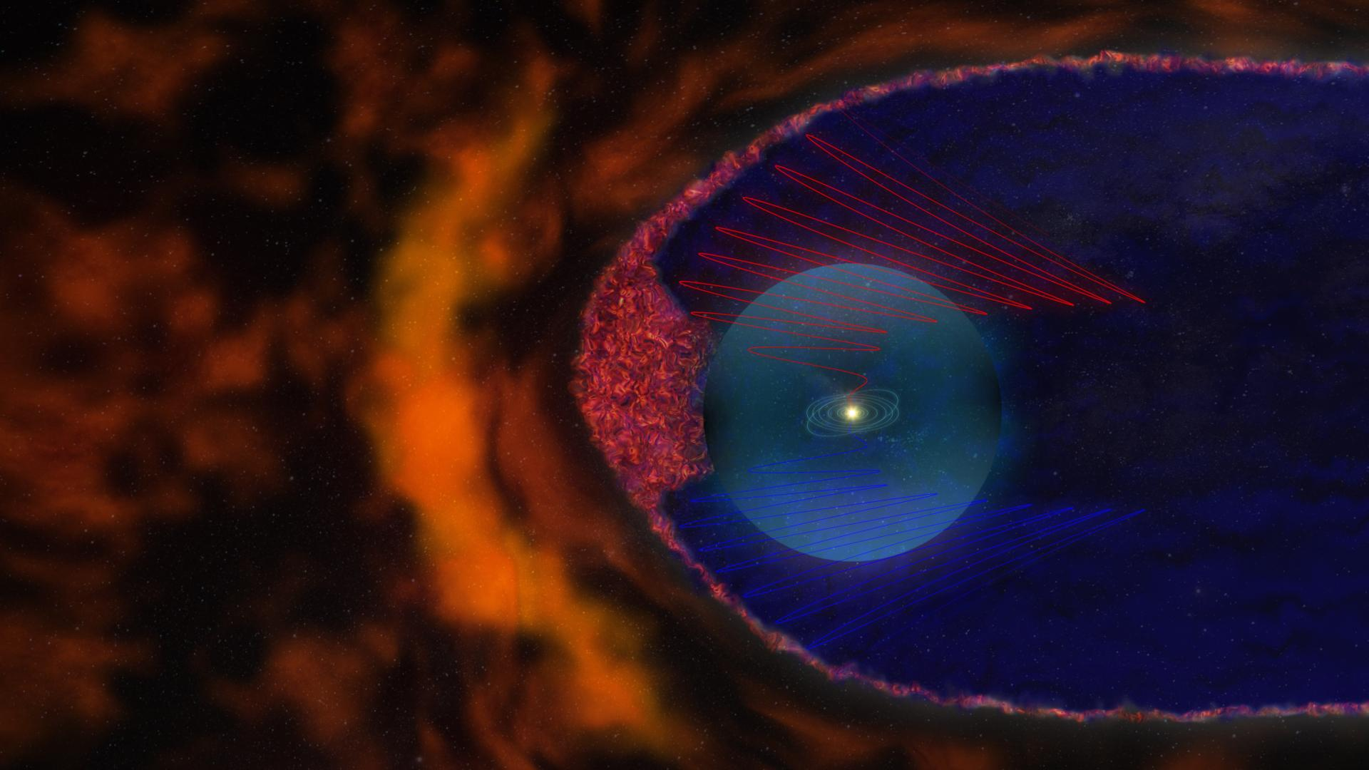 Artist's interpretation depicting the new view [in light of data from the Voyager spacecraft as they passed the heliopause] of the heliosphere. The heliosheath is filled with “magnetic bubbles” (shown in the red pattern) that fill out the region behind the heliopause. In this new view, the heliopause is not a continuous shield that separates the solar domain from the interstellar medium, but a porous membrane with fingers and indentations.